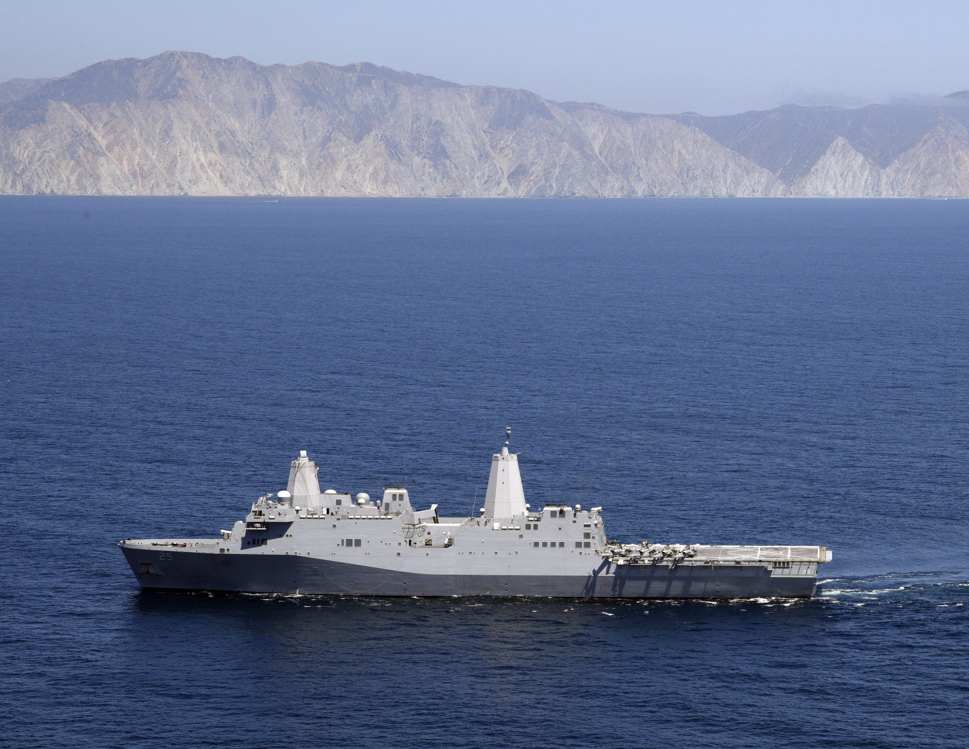 PACIFIC OCEAN (Aug. 23, 2016) San Antonio-class amphibious transport dock USS Somerset (LPD 25) transits the Pacific Ocean during Composite Training Unit Exercise. Somerset is part of the Makin Island Amphibious Ready Group, working with Amphibious Squadron Five and the 11th Marine Expeditionary Unit in preparation for an upcoming deployment. (U.S. Navy photo by Mass Communication Specialist 1st Class Larry S. Carlson/Released) 160822-N-UT455-030 Join the conversation: navylive.dodlive.mil